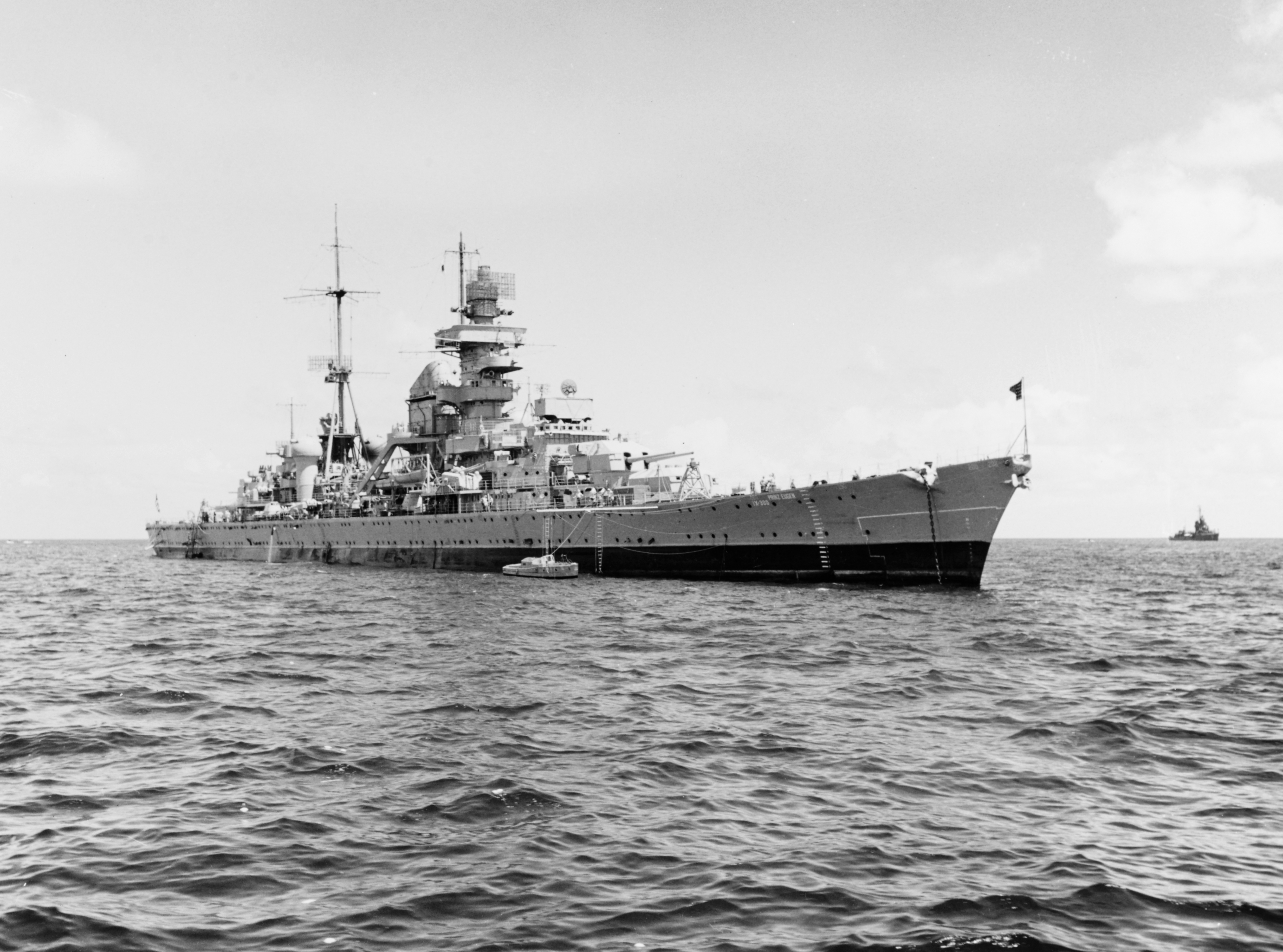 USS Prinz Eugen (IX-300), a former German heavy cruiser, ready for target duty in the operation Crossroads a-bomb tests, 14 June 1946.